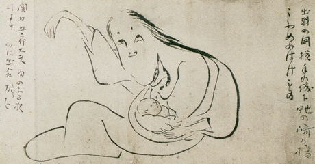 Ubume (うぶめ, the spirit of a woman who died in childbirth) from the Buson Yōkai Emaki (蕪村妖怪絵巻)